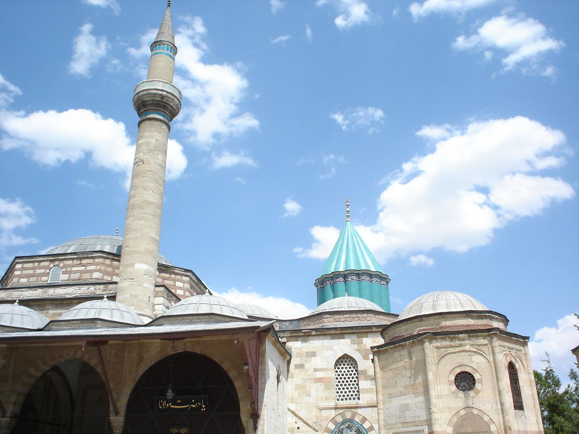 Mevlana museum - Green dome